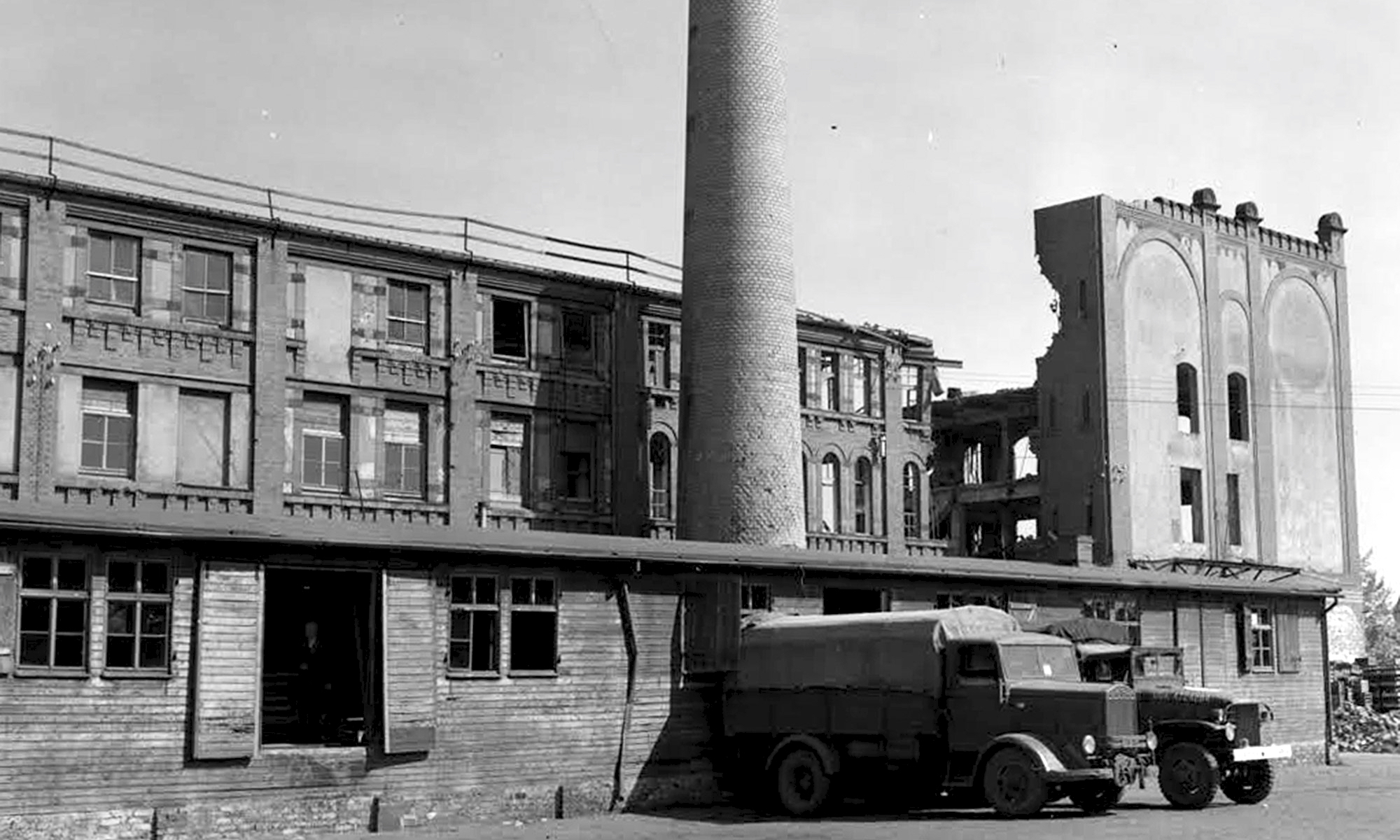 Konsum-Genossenschaftsbäckerei, the bakery in Nuremberg, Germany, which supplied bread to Langwasser internment camp (Stalag 13)